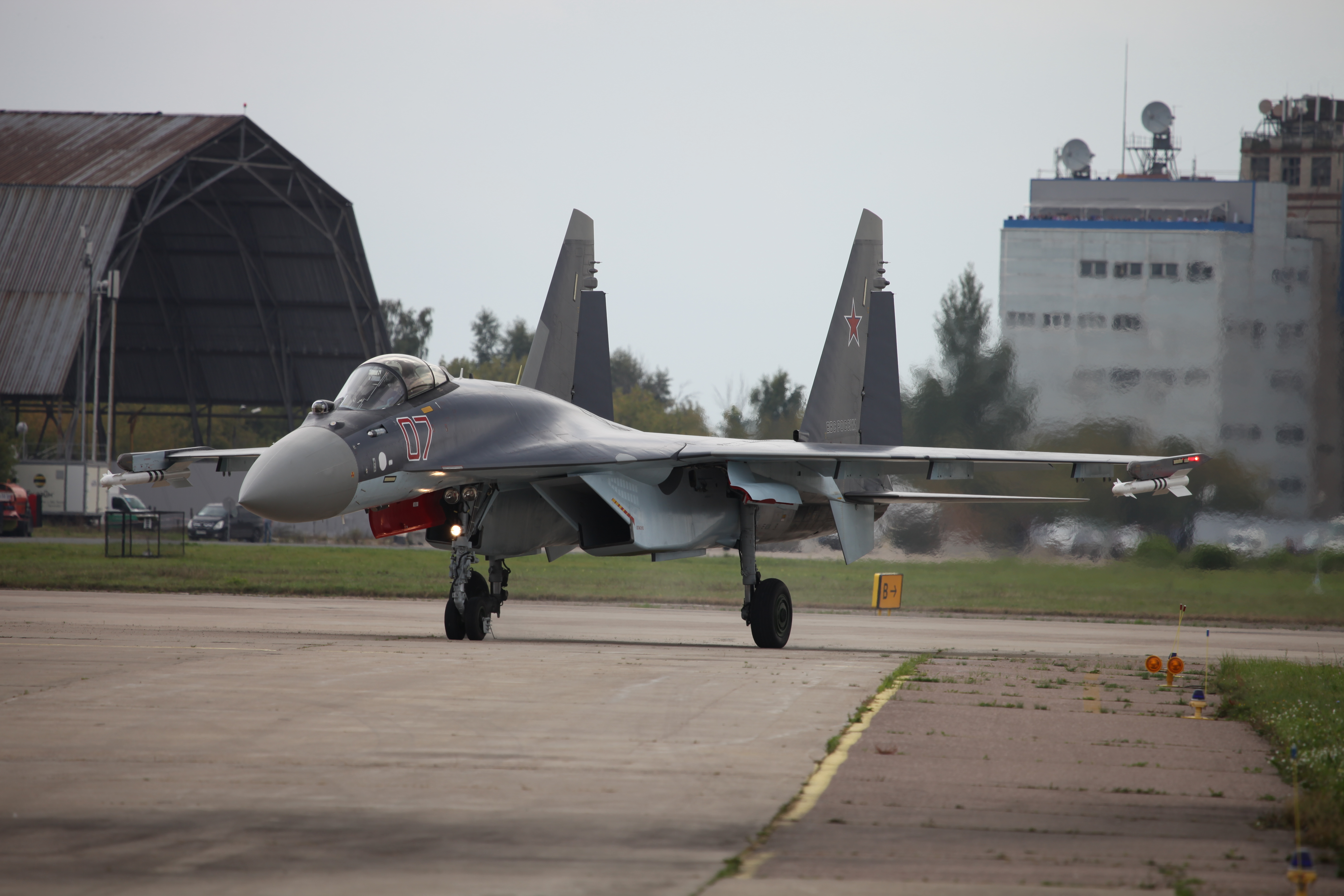 Su-35S at the MAKS-2013